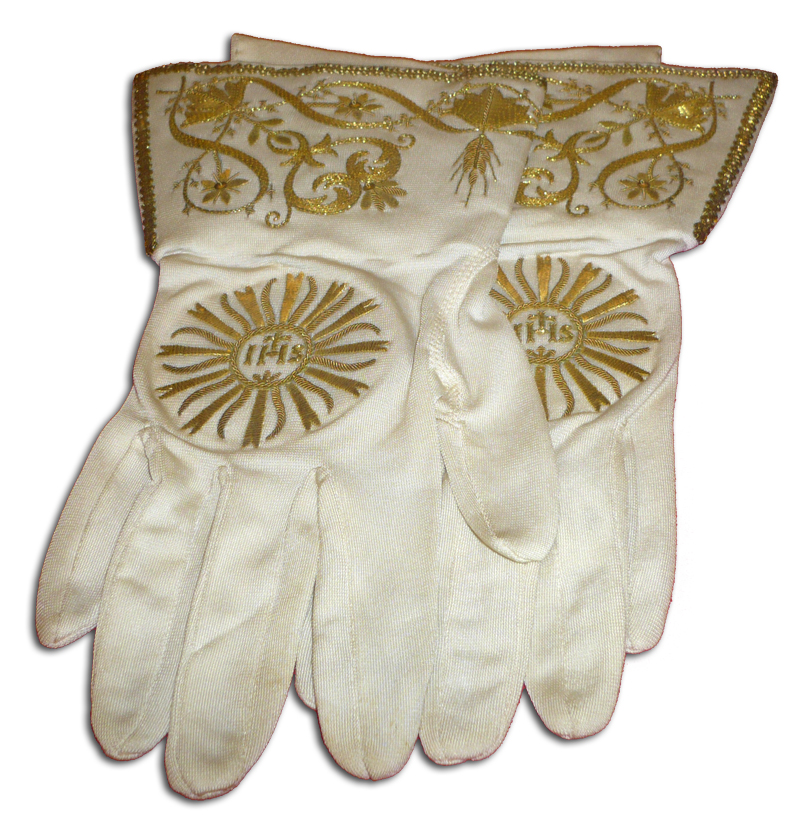 Pontifical gloves (white)